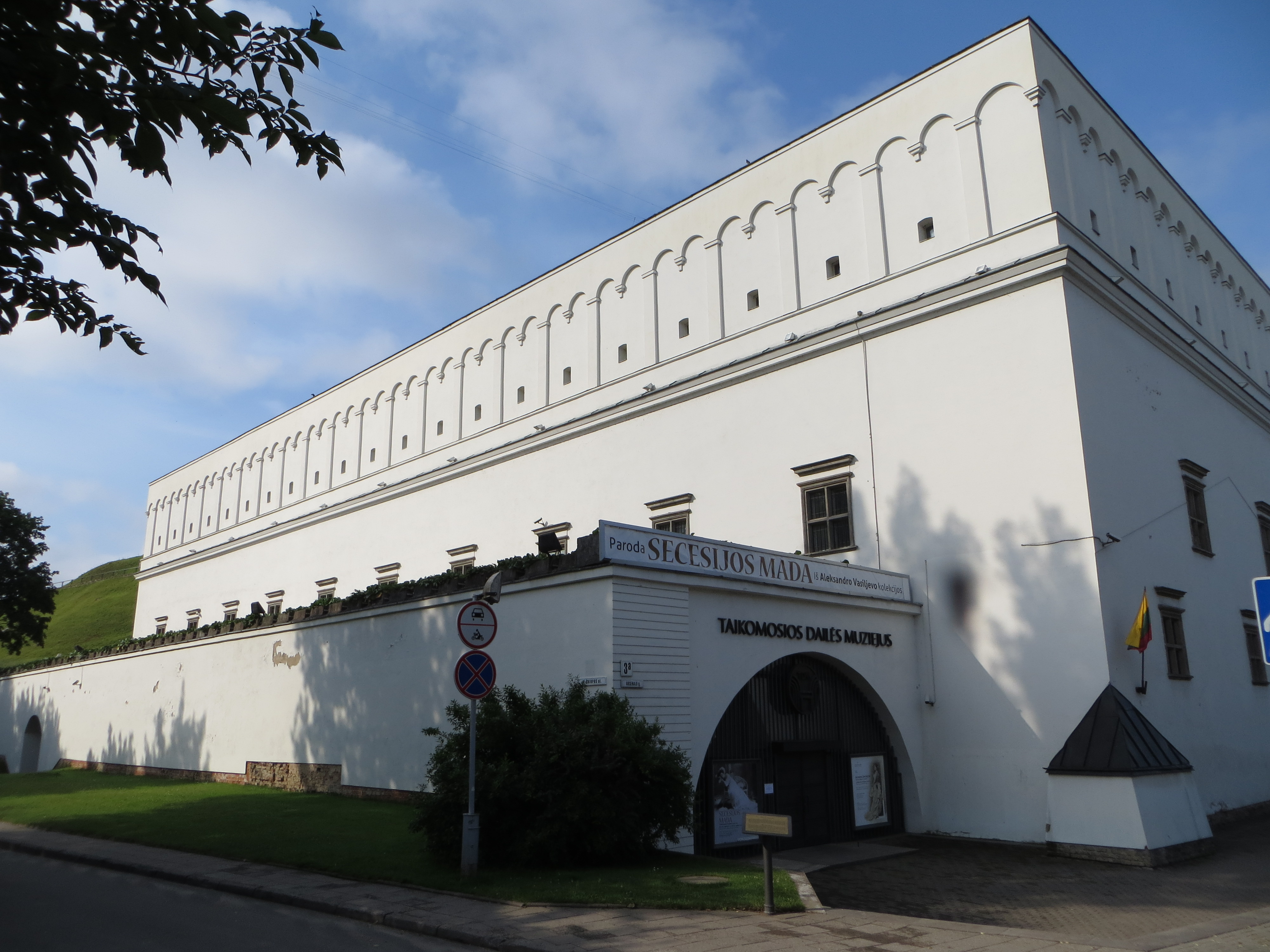 View of the impressive east wall of The Old Arsenal at the foot of Gediminas Hill, in old town Vilnius, where the historical Upper and Lower Castles were located. The Vilnius Castle Complex had two arsenals, the New and Old, during its history. The Old Arsenal was established in the 15th century, during the rule of Vytautas the Great. It was expanded during subsequent rulers and by the mid 17th century the Old Arsenal housed about 180 heavy cannons. Today, the building houses an exposition of Lithuania's pre-history.